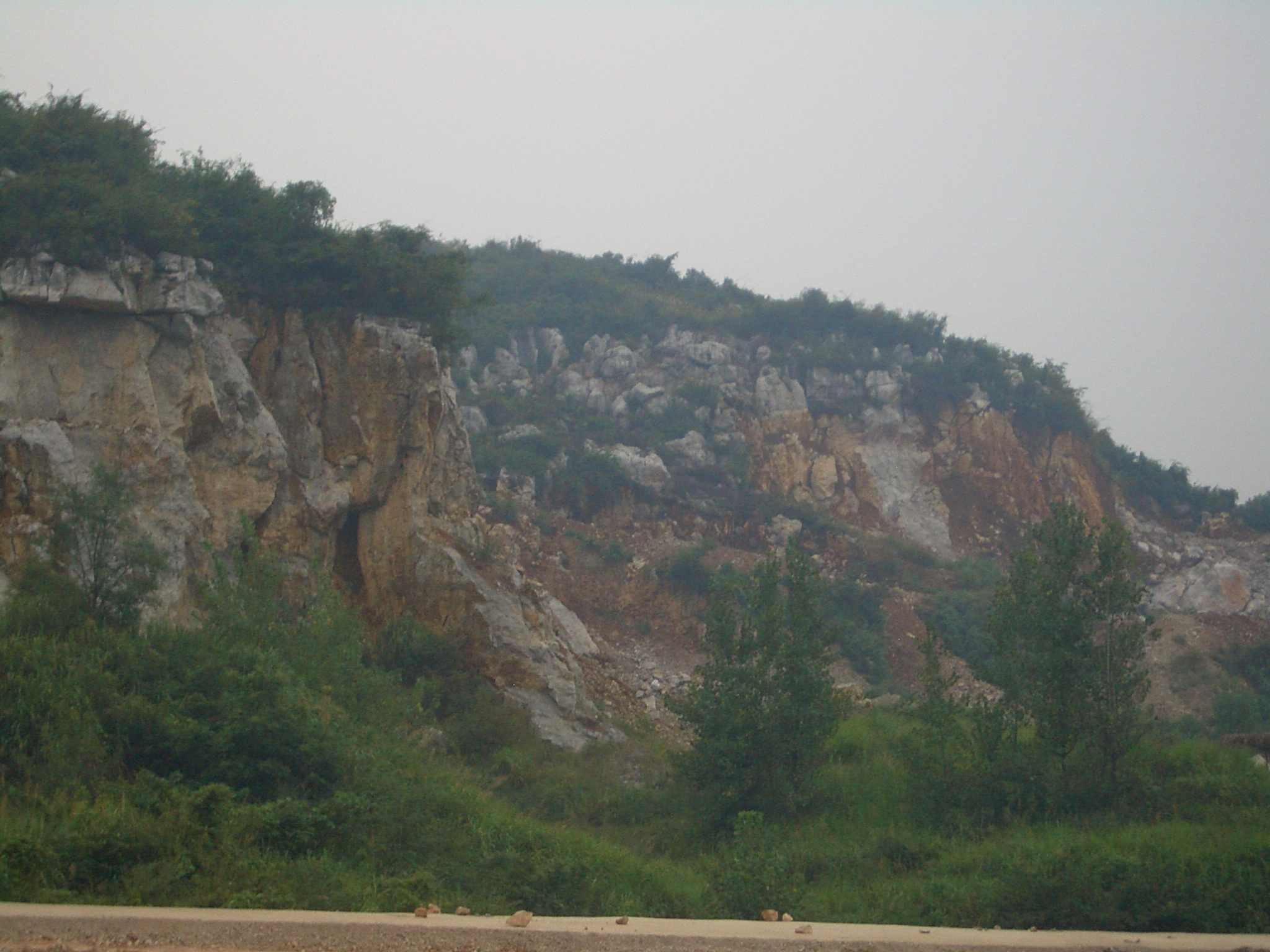 Hills around Project 131. The tunnels are somewhere under them...